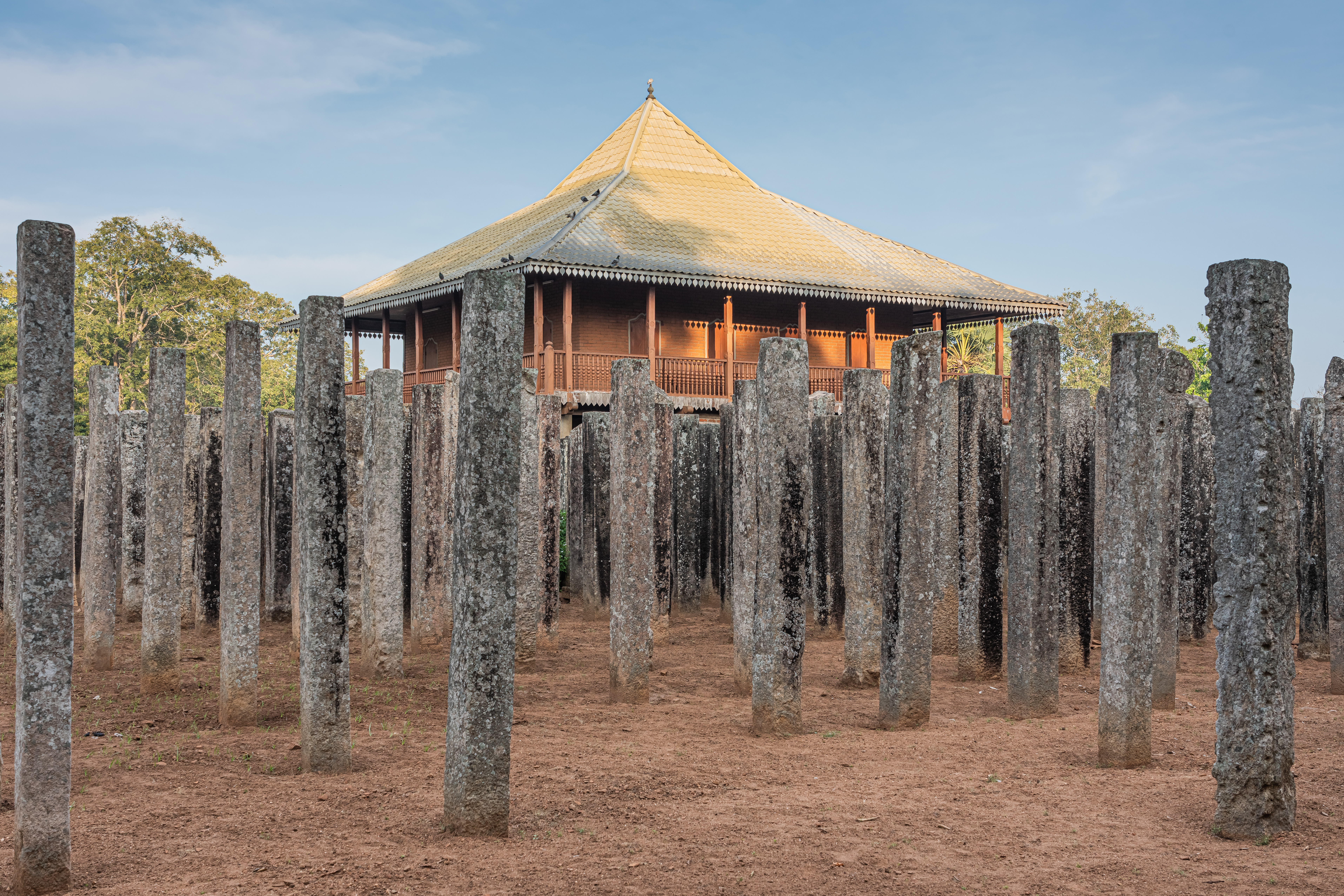 Pillars of former Lovamahapaya building in Anuradhapura, Sri Lanka